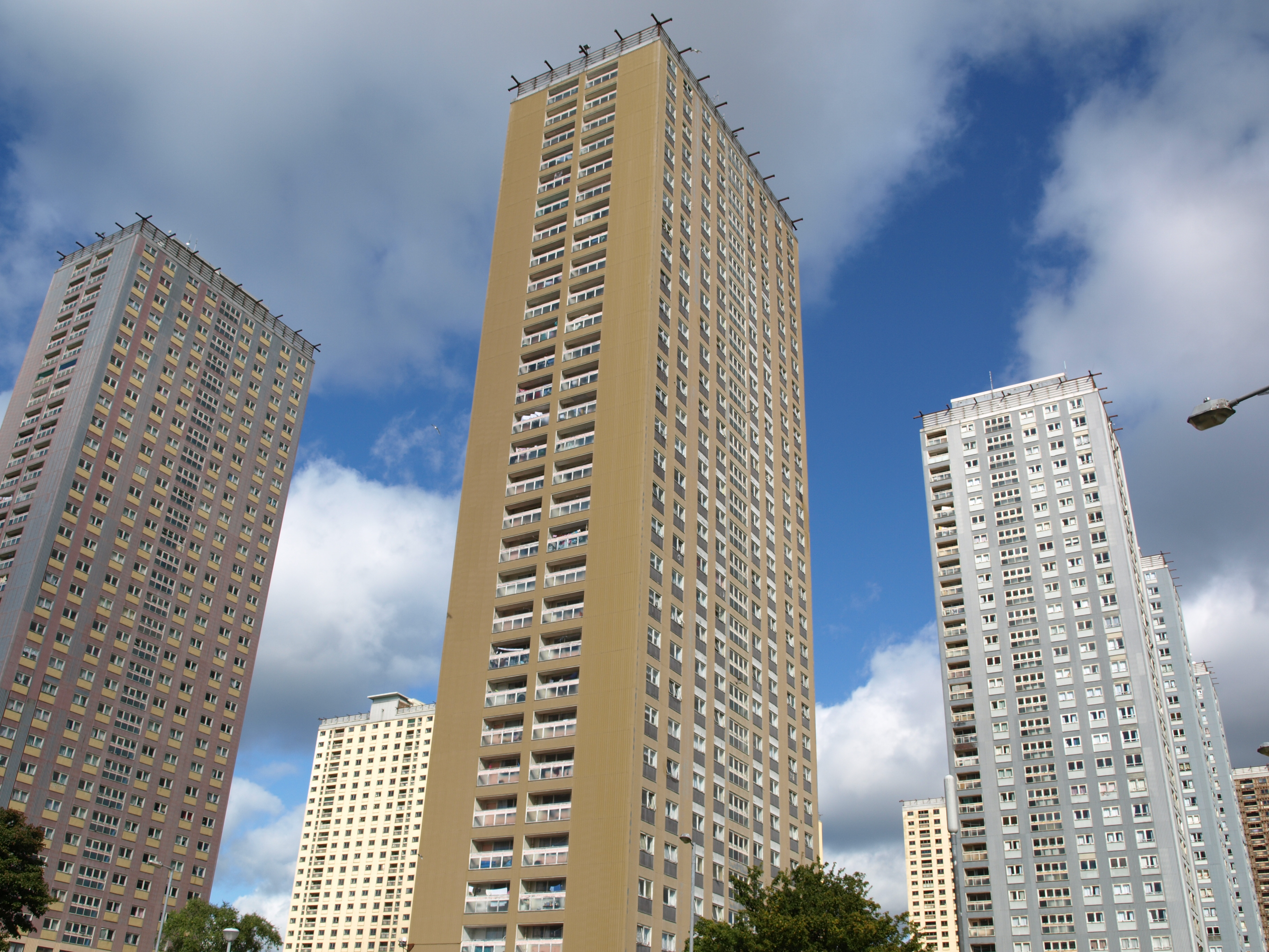 Red Road flats, Glasgow